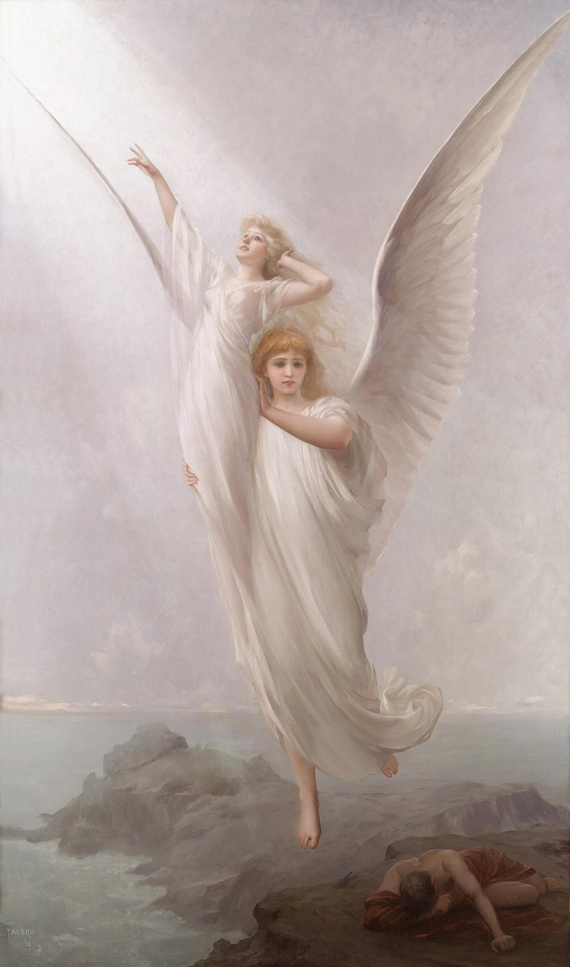 The Human Soul a.k.a. Towards a better world [1] oil on canvas 152 x 91 cm signed l.l.: Falero / 1894